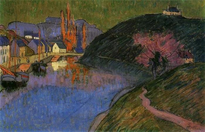 Le port de Pont-Aven, painting by the French Synthesist artist Emile Jourdan, a member of the Pont-Aven group of artists. Oil on Canvas, 43 x 65 cm.